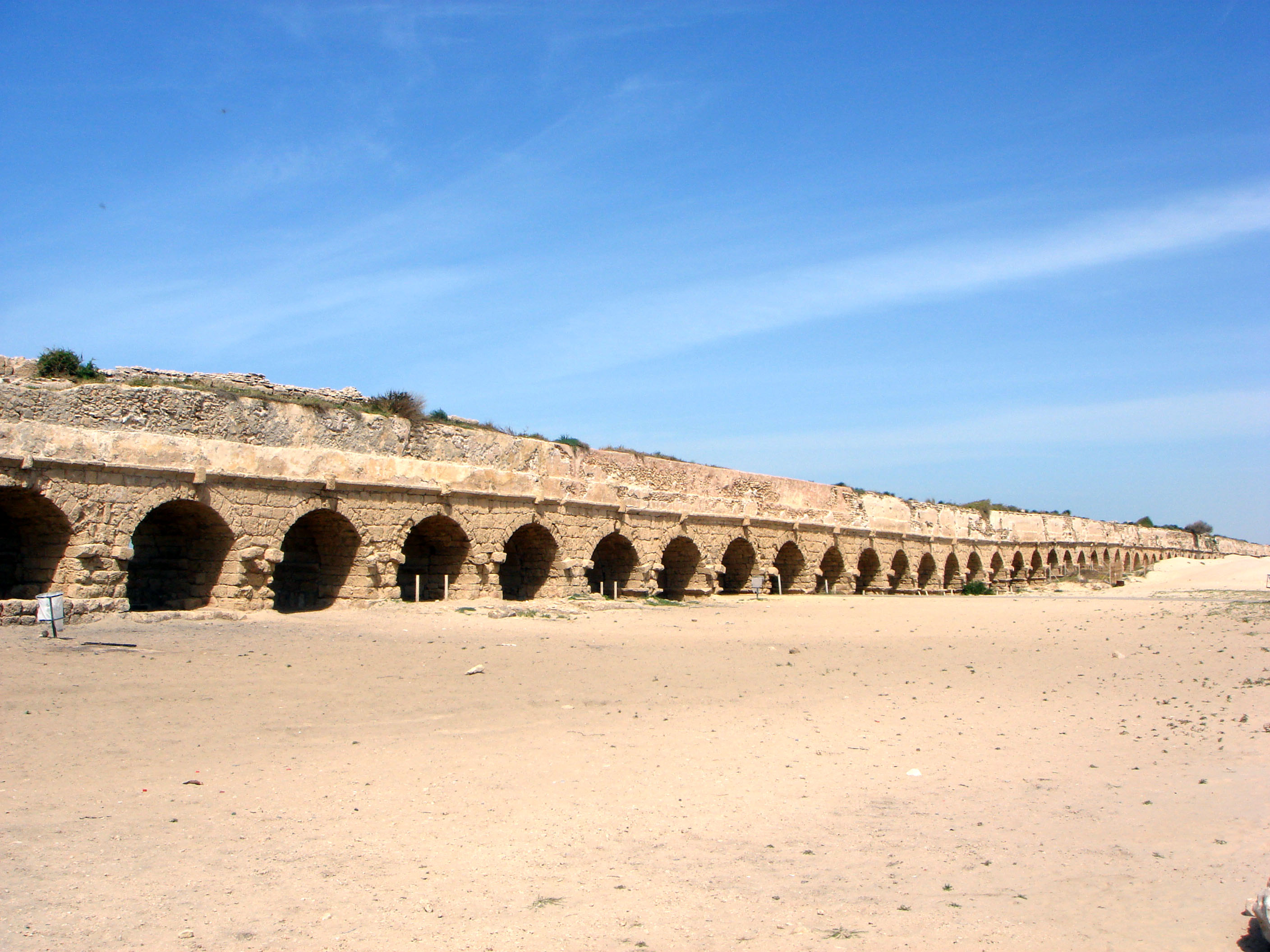 Ruins of the Roman aqueduct at Caesarea Maritima.